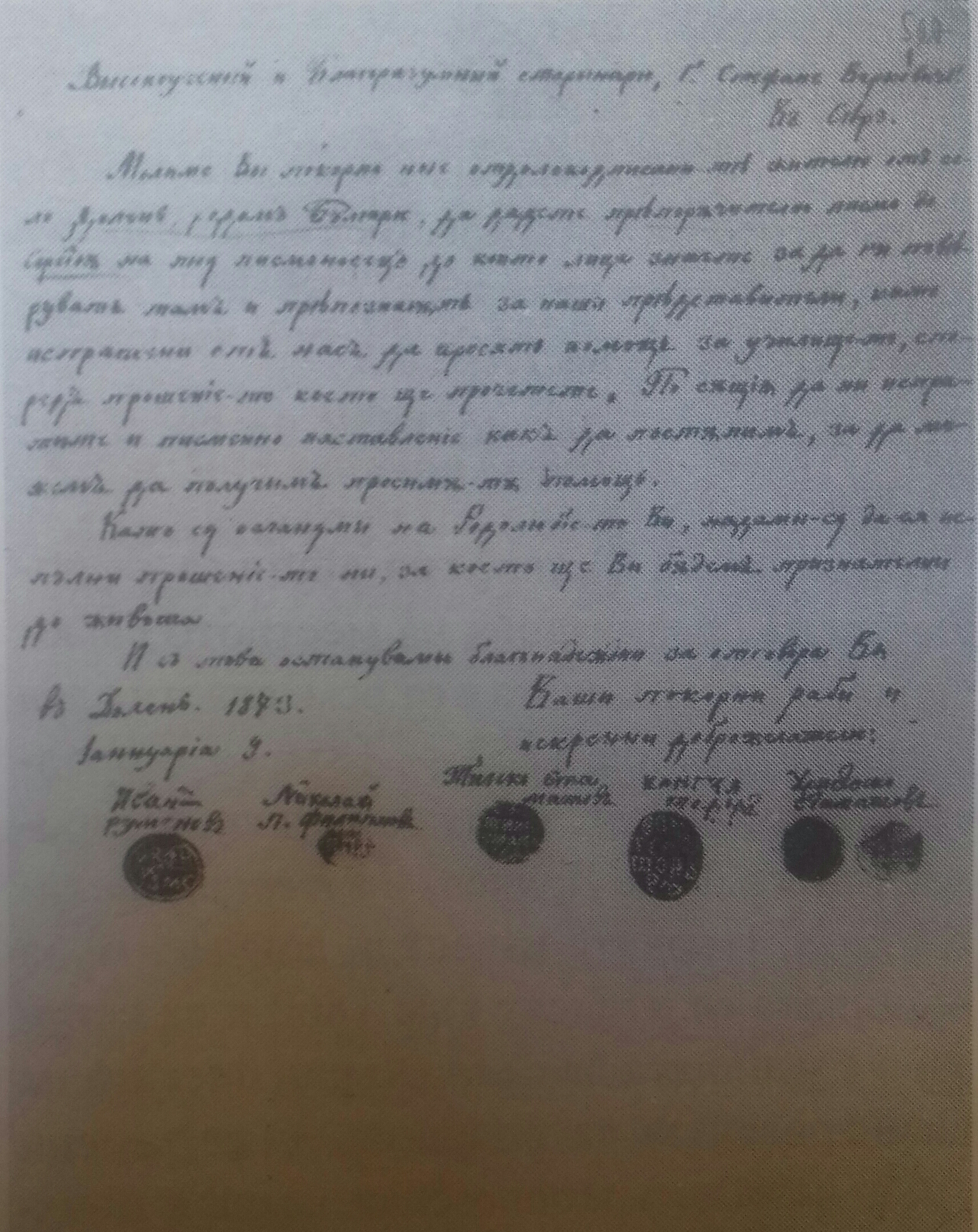 Letter from Dolen Bulgarian Municipality to Verkovic 1875